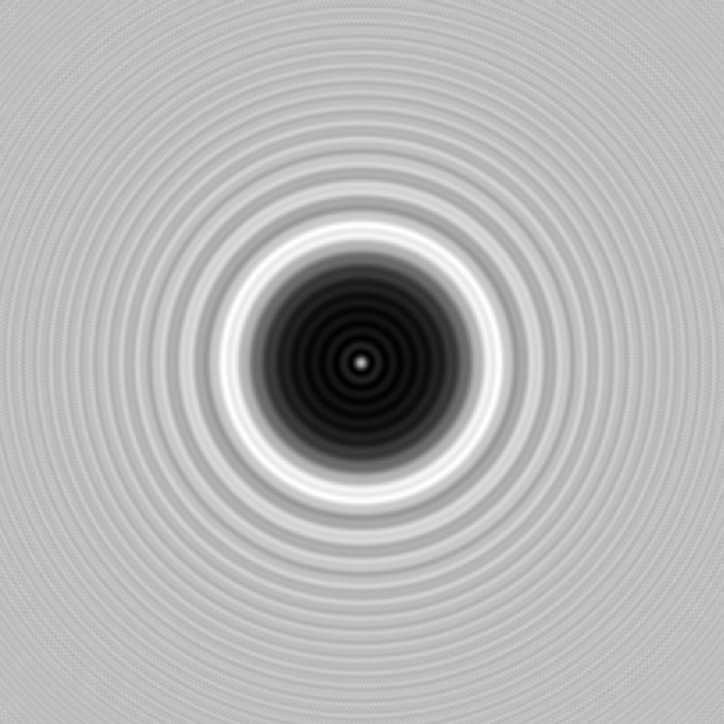 Author: Thomas Reisinger. Poisson Spot showing in the shadow of a 2-mm-diameter disc at a distance of 1 m from the disc. The point source has a wavelength of 633 nm (e.g. He-Ne Laser) and is located 1 m from the disc. Plot generated using GNU Plot and a C program. This plot was created with Gnuplot.